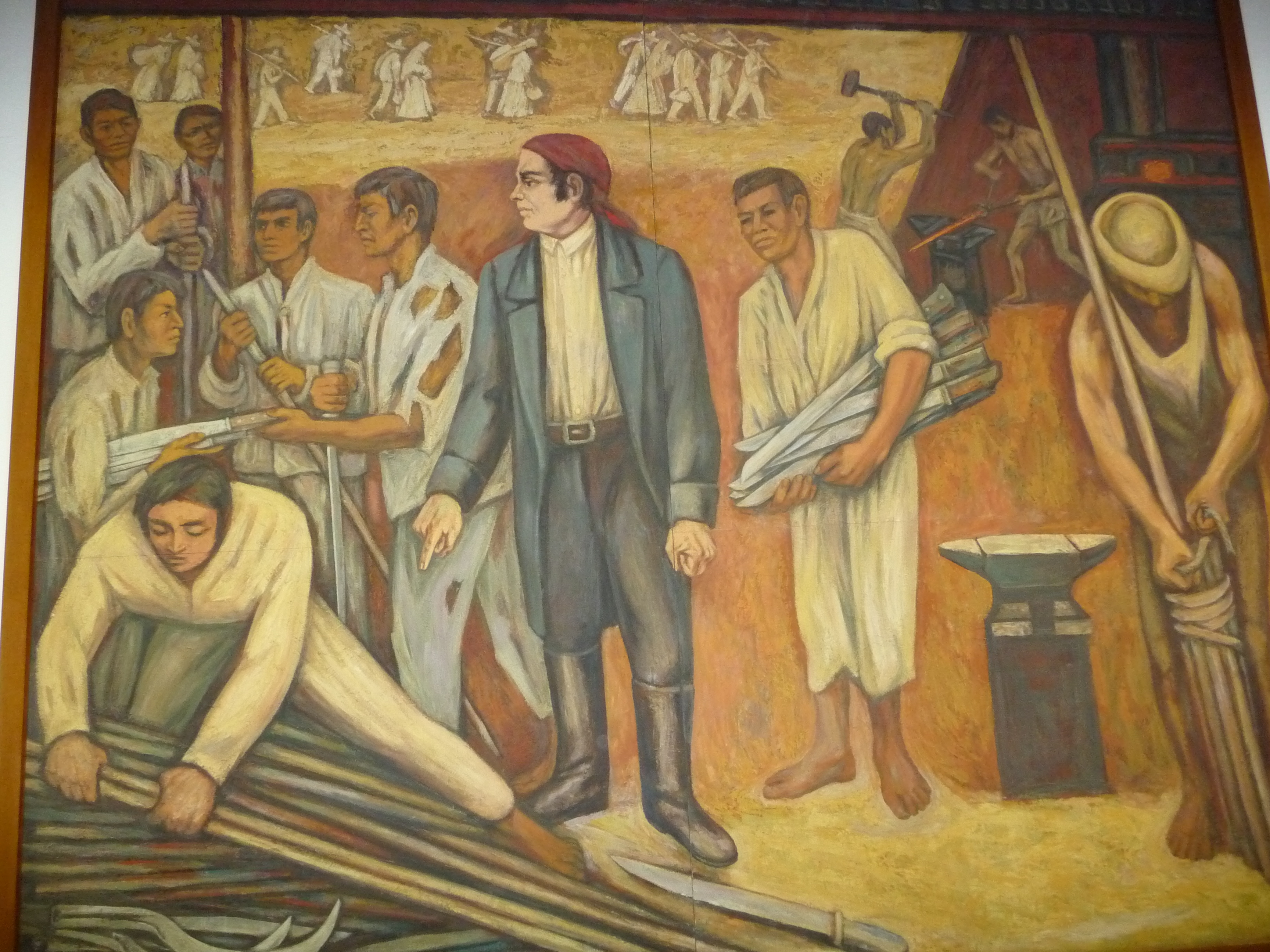 Mural in Casa de Morelos — Michoacán state, SW México. A designated federal Cultural heritage monument in Michoacán.